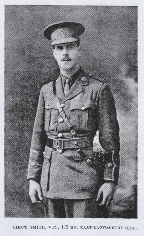 Photograph of Second Lieutenant Alfred Victor Smith, VC, 1/5 Battalion East Lancashire Regiment.